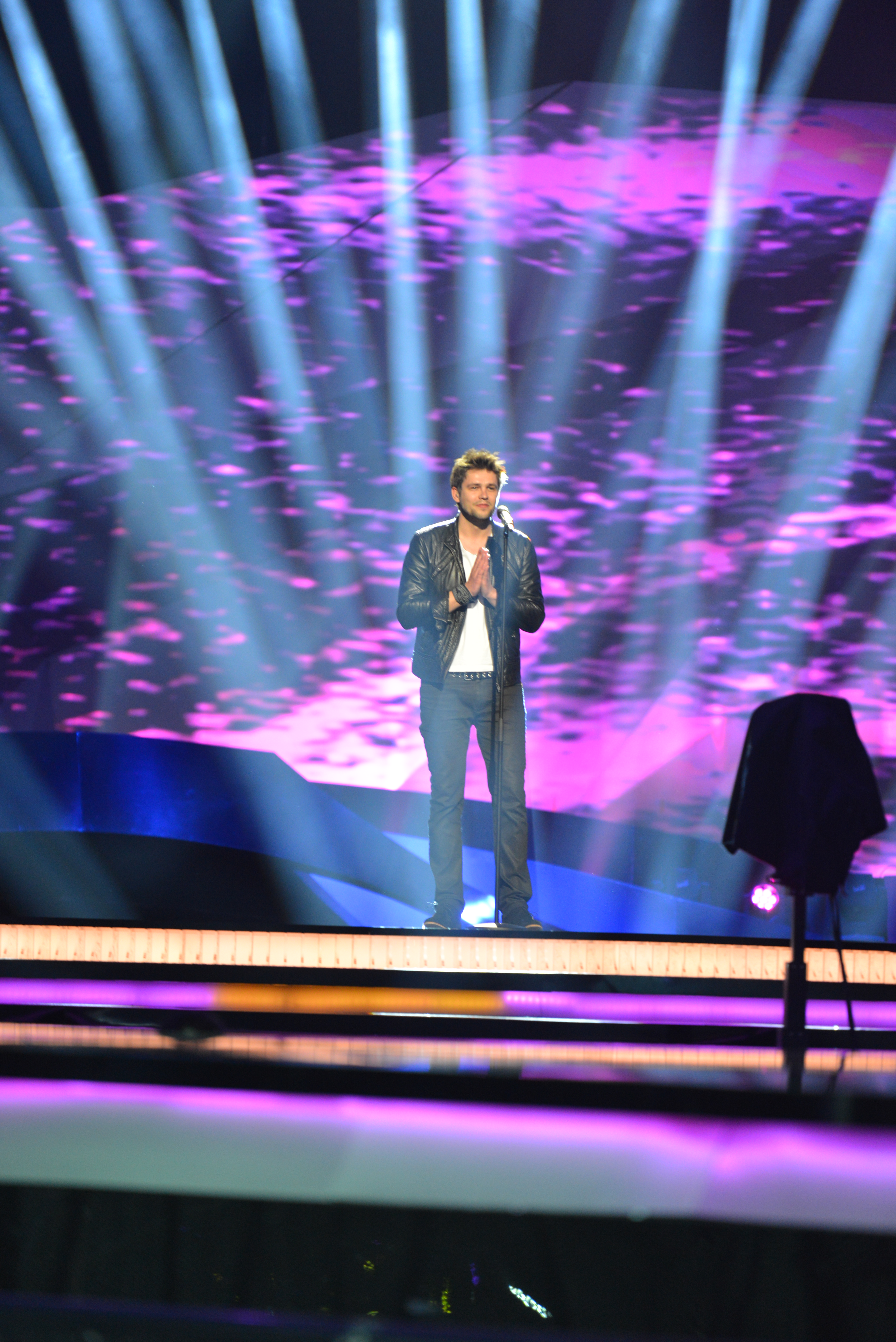 Andrius Pojavis representing Lithuania with the song "Something" during the first dress rehearsal of the first semi final of the Eurovision Song Contest 2013 in Malmö. (Help translate this text)